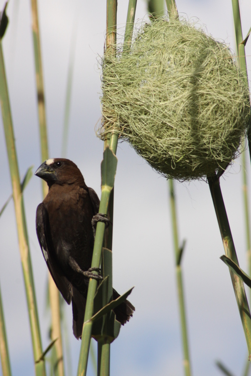 A male Grosbeak weaver (also known as Thick-billed weaver) in Pretoria, South Africa